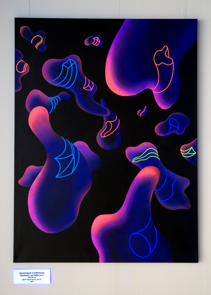 Geometry VII.